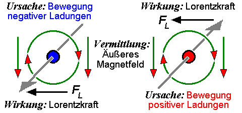 Origin of Lorentz force for moving negative and positive charges Ursache der Lorentzkraft bei Bewegung negativer und positiver Ladungen